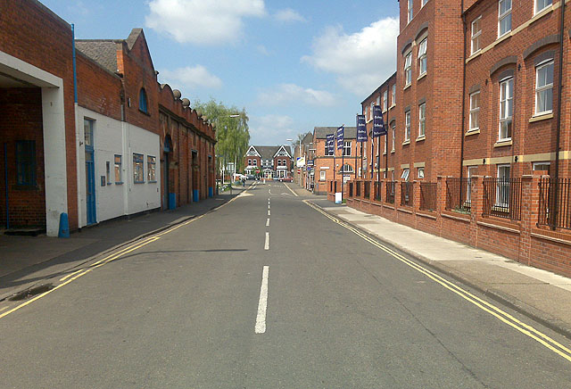 Fletcher Street, Long Eaton On the right a block of new apartments. On the left the Midland Wiper Company, known locally as the Rag Factory; they process old textiles to provide wiping cloths for industrial premises. The building at the vanishing point is a hotel and Chinese restaurant on Derby Road.